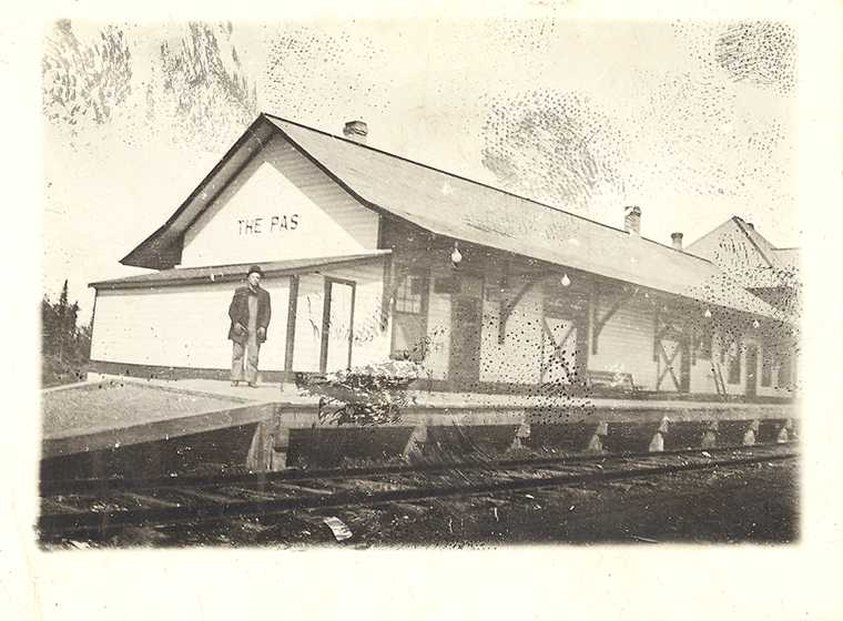 Monotone postcard with sepia tone of the railway station at The Pas, Manitoba. Postcard previously [cut in half]. Physical description/extent 1 postcard; 5.5 x 7.5 cm Date produced [190-?] Date Range(s) 1900-1909 Copyright holder Public domain